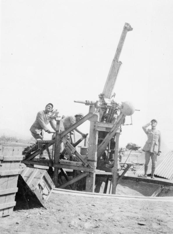 IWM caption : "THE FRENCH ARMY IN SALONIKA DURING THE FIRST WORLD WAR. French 75mm field gun mounted for use as an anti-aircraft weapon." See also File:French 75mm AA gun Salonika Front WWI LOC LC-USZ62-48585.jpg